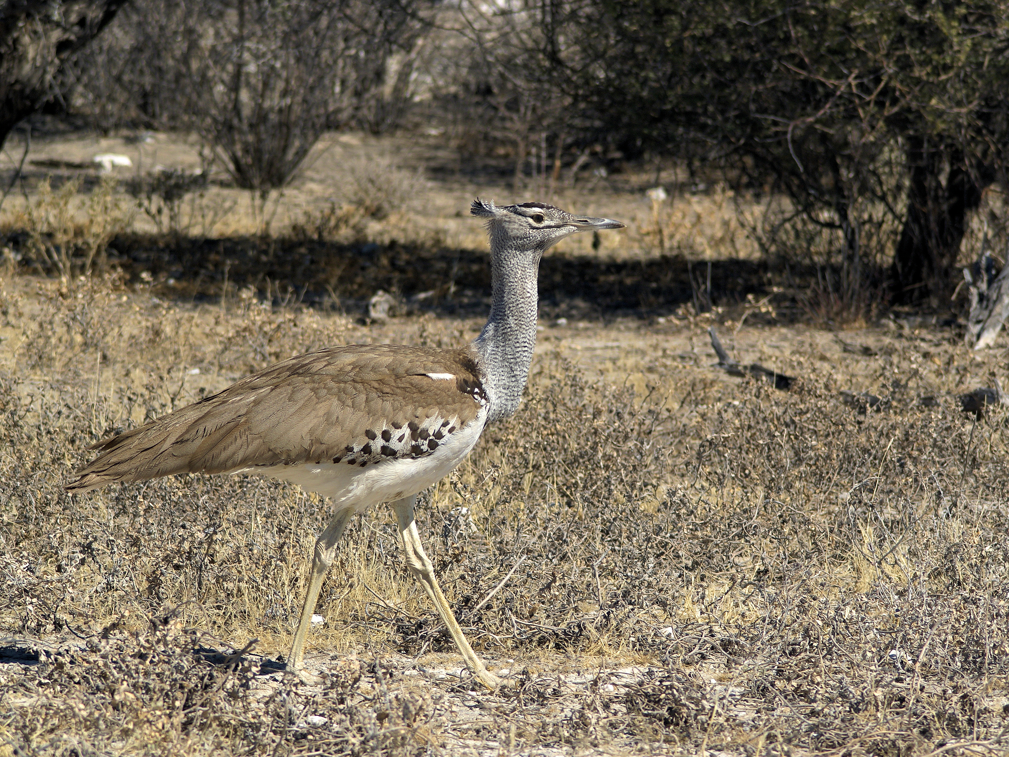 A male Kori Bustard near Grünewald, Western Etosha, Namibia